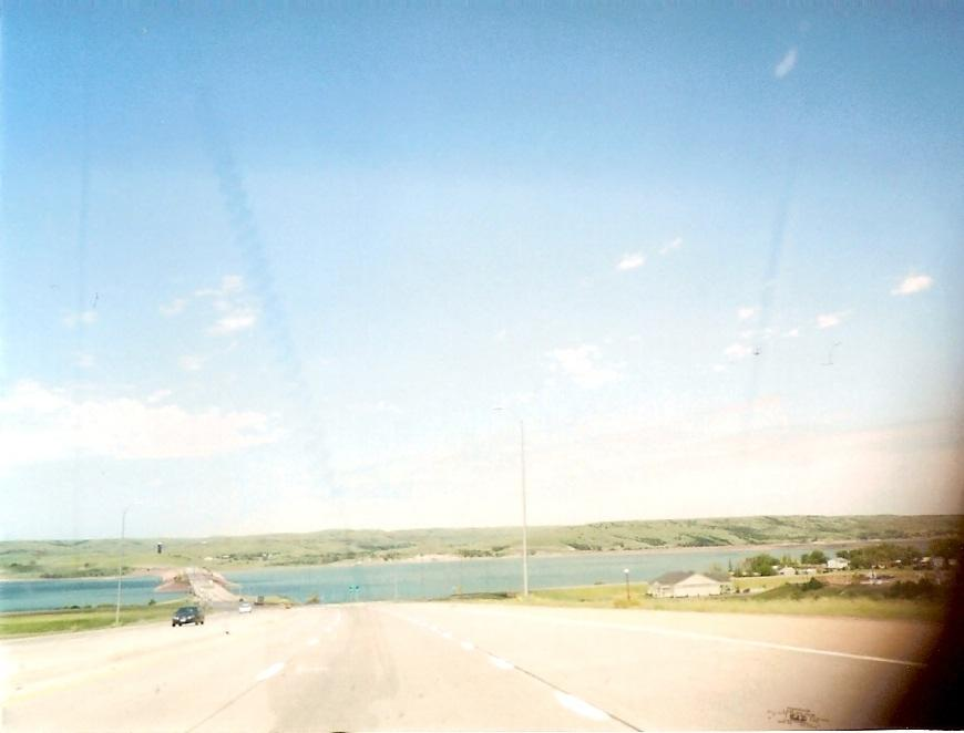 I-90 crossing the Missouri. Taken the old fashioned way in June 2003.